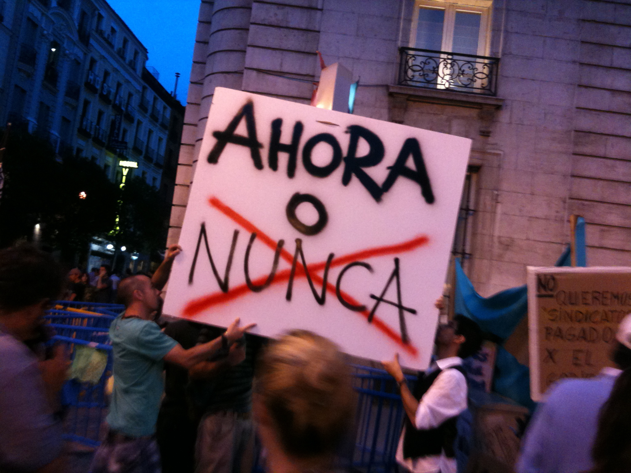 Sign reads "Now or never"